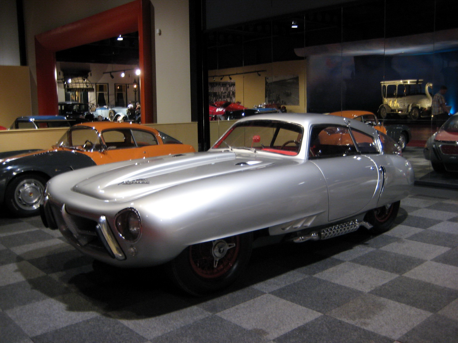 Pegaso Z-102 Cupula II (1953); VIN 0-0121 (21st car made). Design by Wifredo Ricart. This was a 1953 New York Auto Show exhibit.